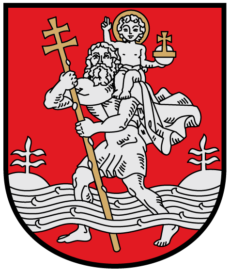 Coat of arms of Vilnius